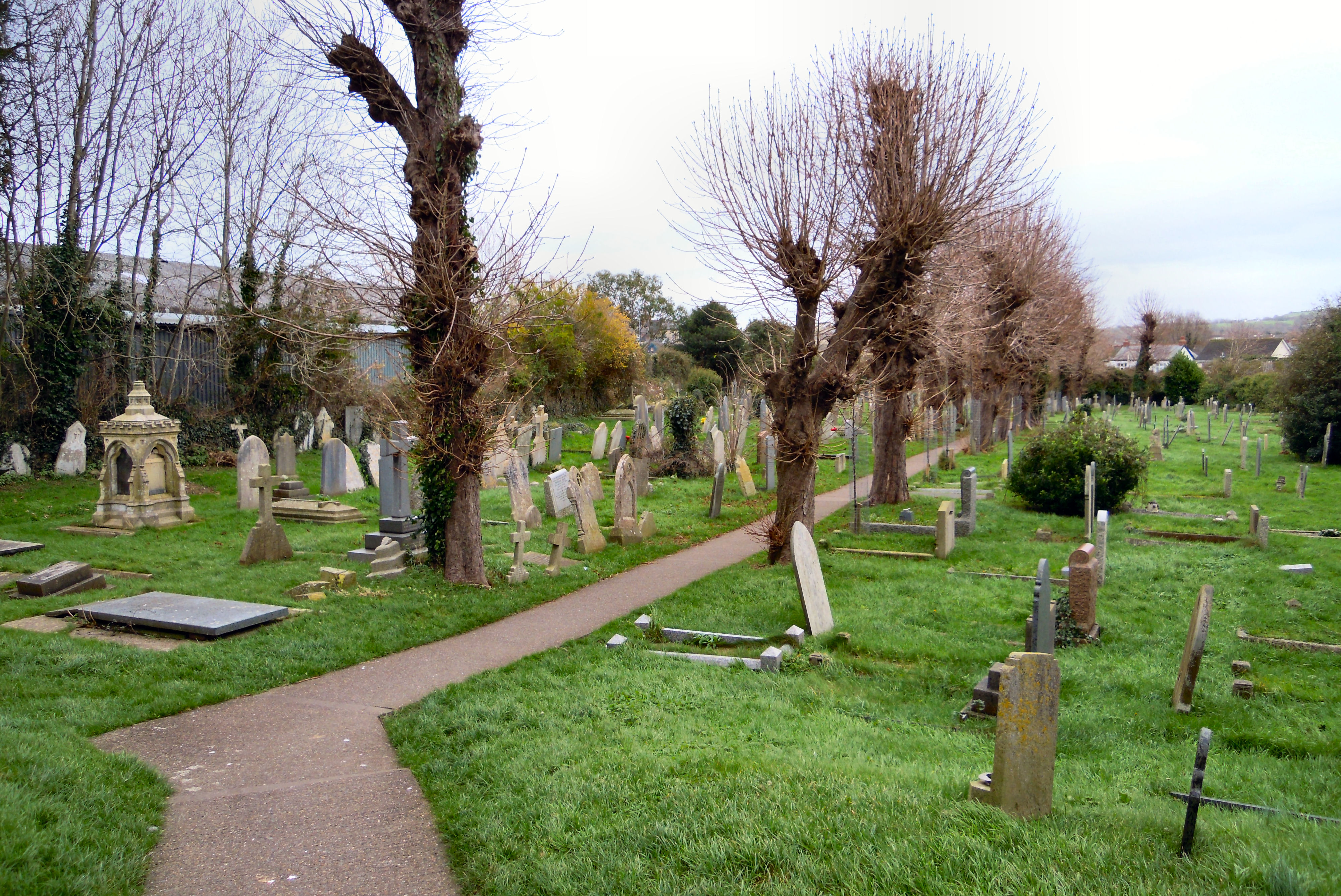 The churchyard of Holy Trinity Church in Barnstaple in Devon